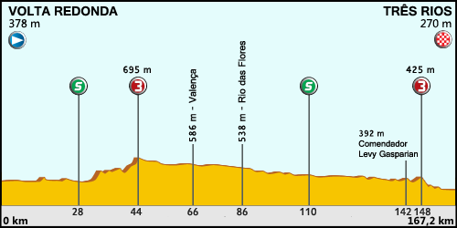 Profile of the 2st stage of the 2013 Tour do Rio